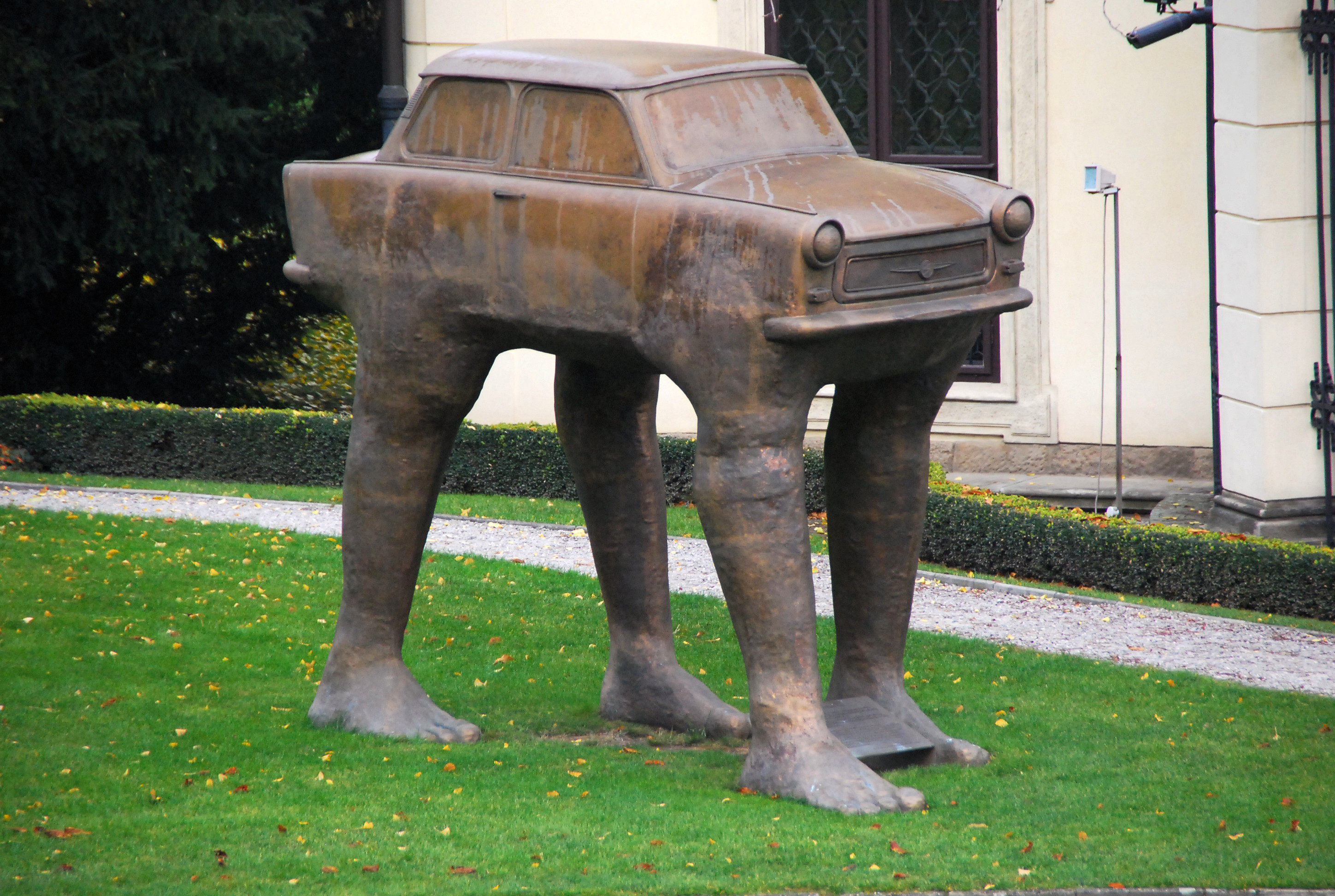 Sculpture of a Trabbi on legs at the German embassy in Prague